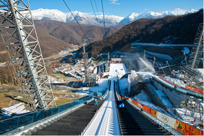 Top view from the normal hill of the Sochi 2014 Olympics ski jump